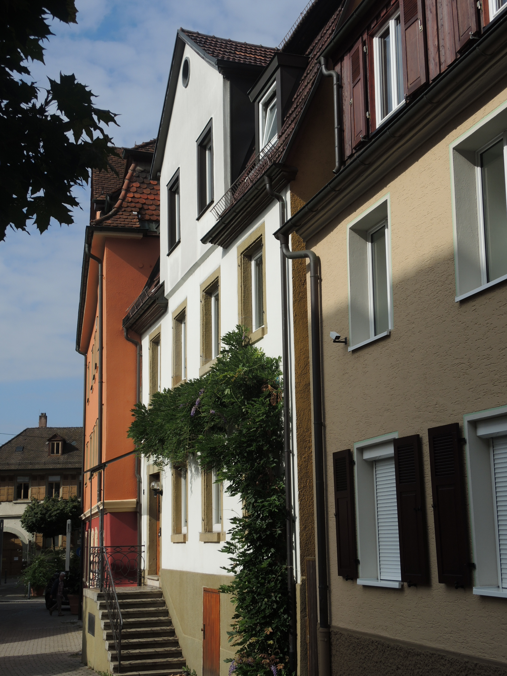 Imhofstraße. Background: Ott-Pausersche-Fabrik.